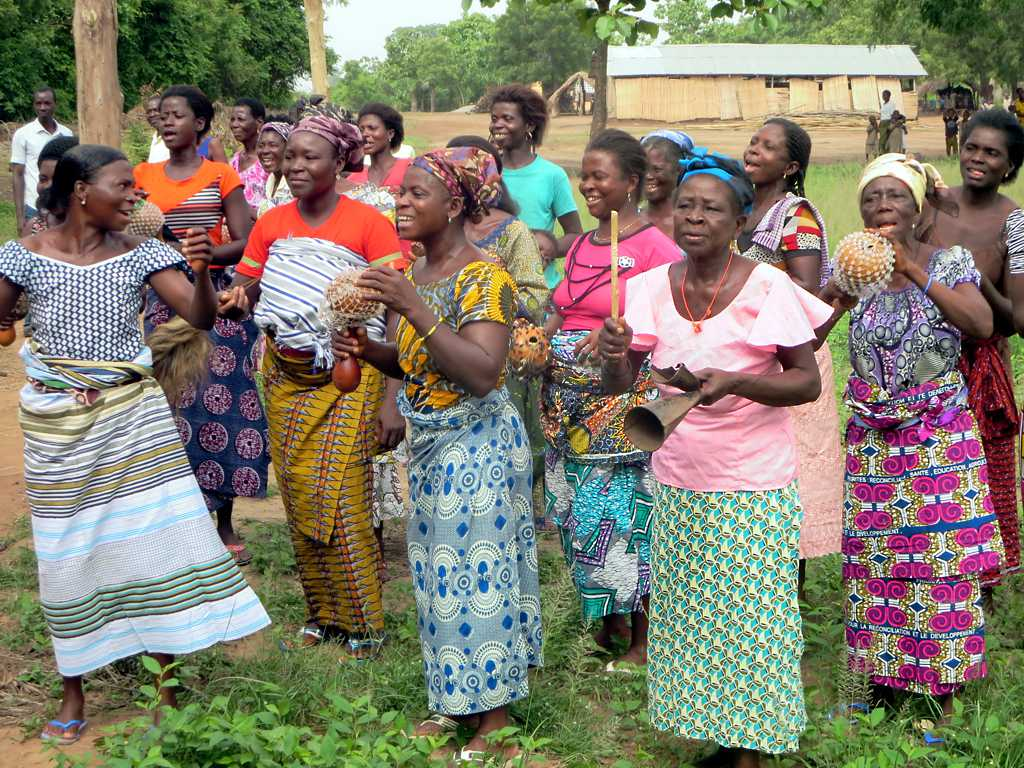 A group of Ewa women at Mekoviade village, just north of Assahoun, Togo.